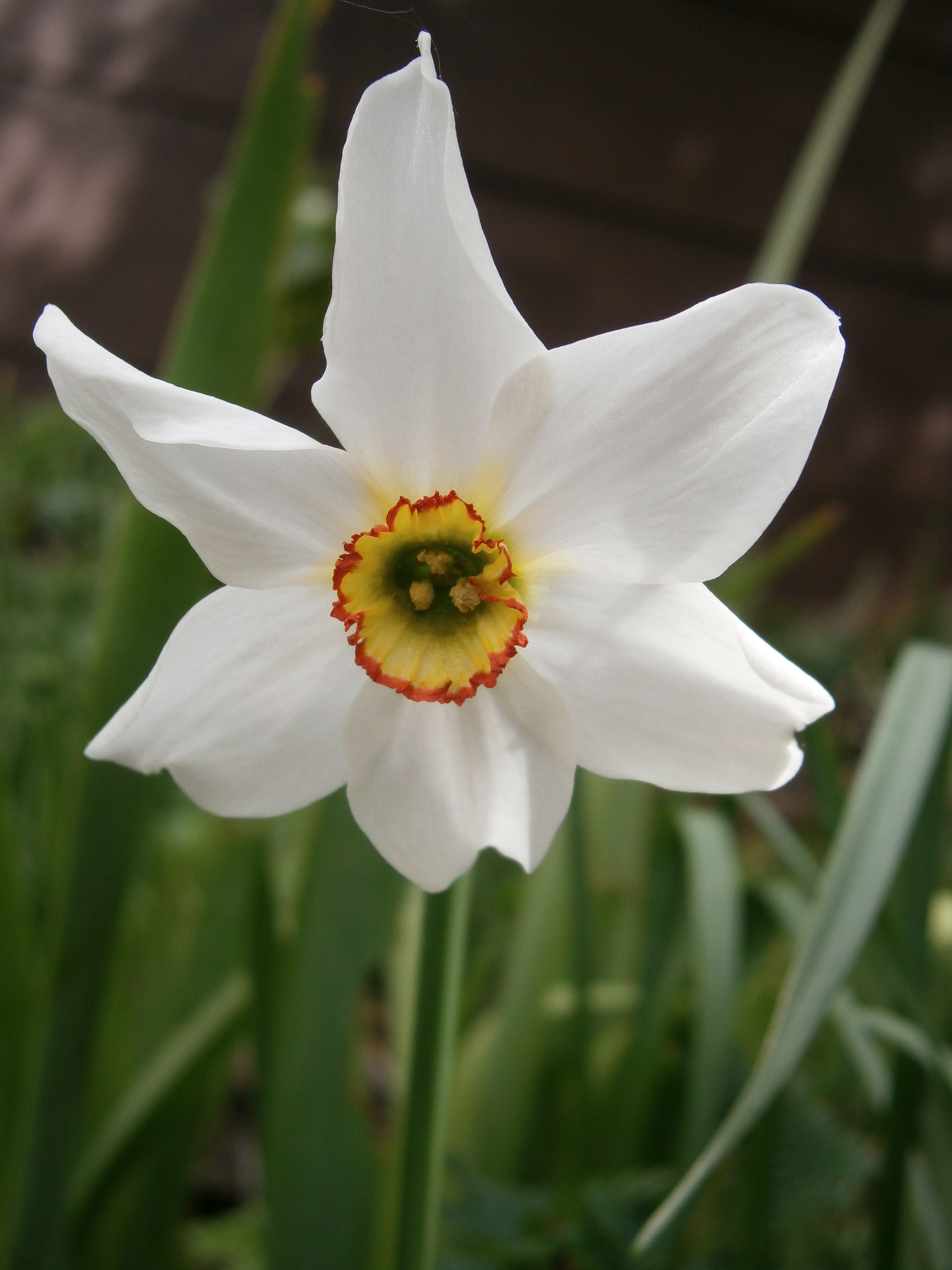 Narcissus poeticus 'Recurvus' close-up